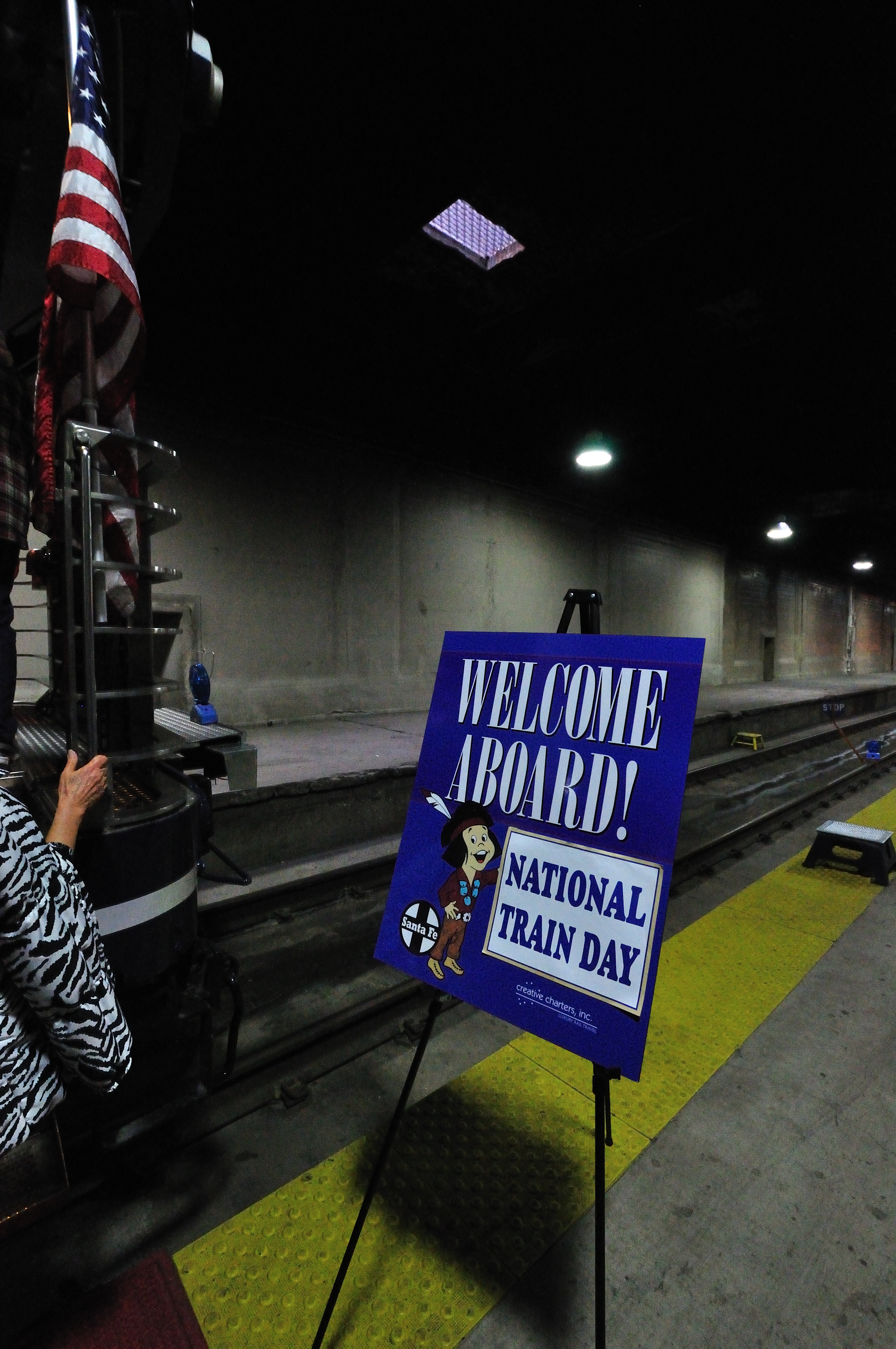 Creative Charters knows how to welcome guests.